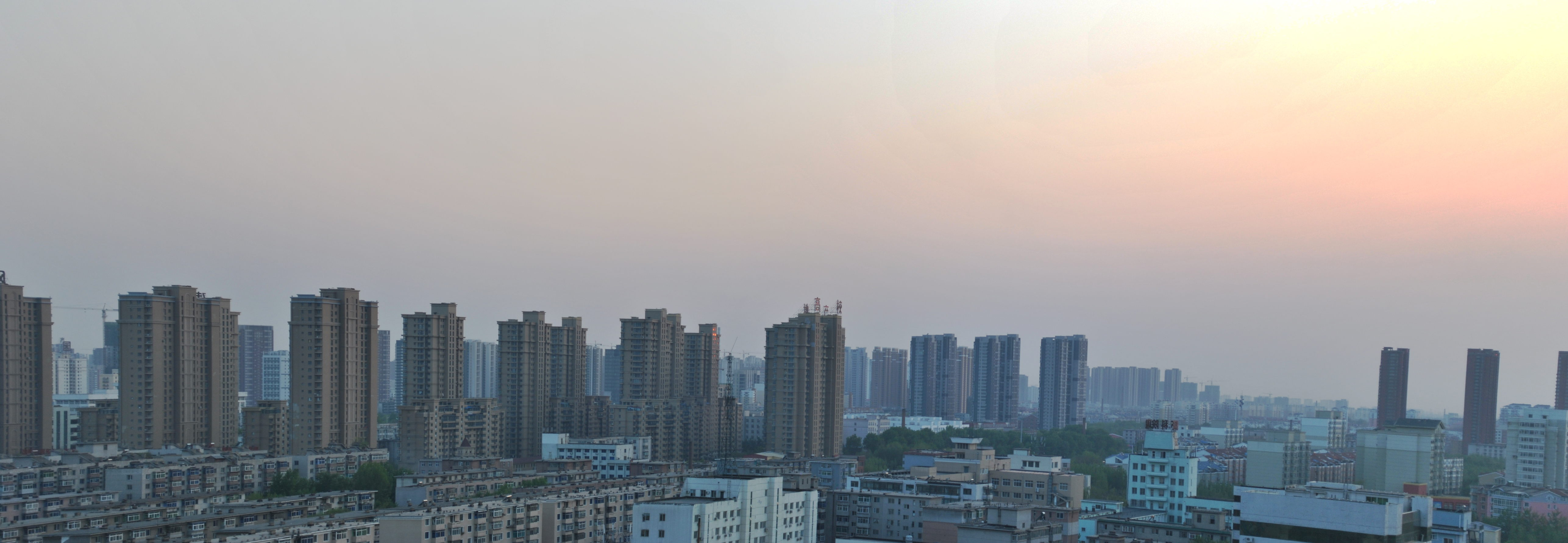 Shenyang at sunset